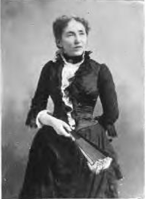 Photographic portrait of Ellen Olney Kirk (1842-1928)